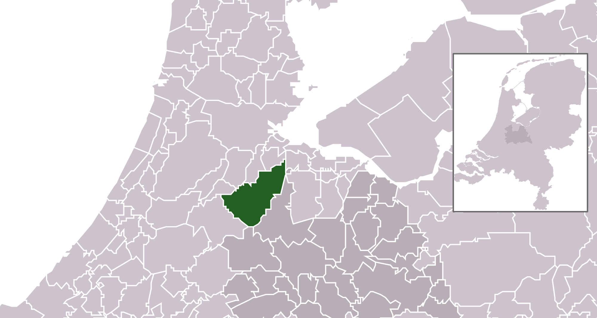 Location maps for the 441 municipalities in the Netherlands. Boundaries 1/1/2009 Automatically generated with script File name contains "Municipality code" (CBS-code) as specified in: [1] Created in svg using coordinate data derived from ESRI data published by Centraal Bureau voor de Statistiek, Voorburg/Heerlen. ([2]) Color coding and original design (slightly adpated by me) by user Mtcv (2006/2007) ([3]) Updated until January 1, 2014 The copyright holder of this file, Centraal Bureau voor de Statistiek, allows anyone to use it for any purpose, provided that the copyright holder is properly attributed. Redistribution, derivative work, commercial use, and all other use is permitted. Attribution: Centraal Bureau voor de Statistiek This work is free and may be used by anyone for any purpose. If you wish to use this content, you do not need to request permission as long as you follow any licensing requirements mentioned on this page.